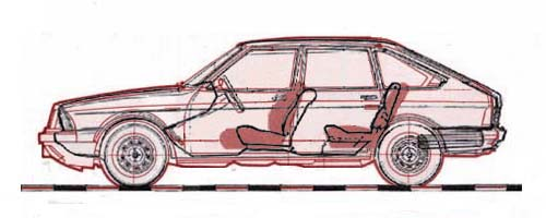 Simca 1307 (black contour) and Aleko (red contour).